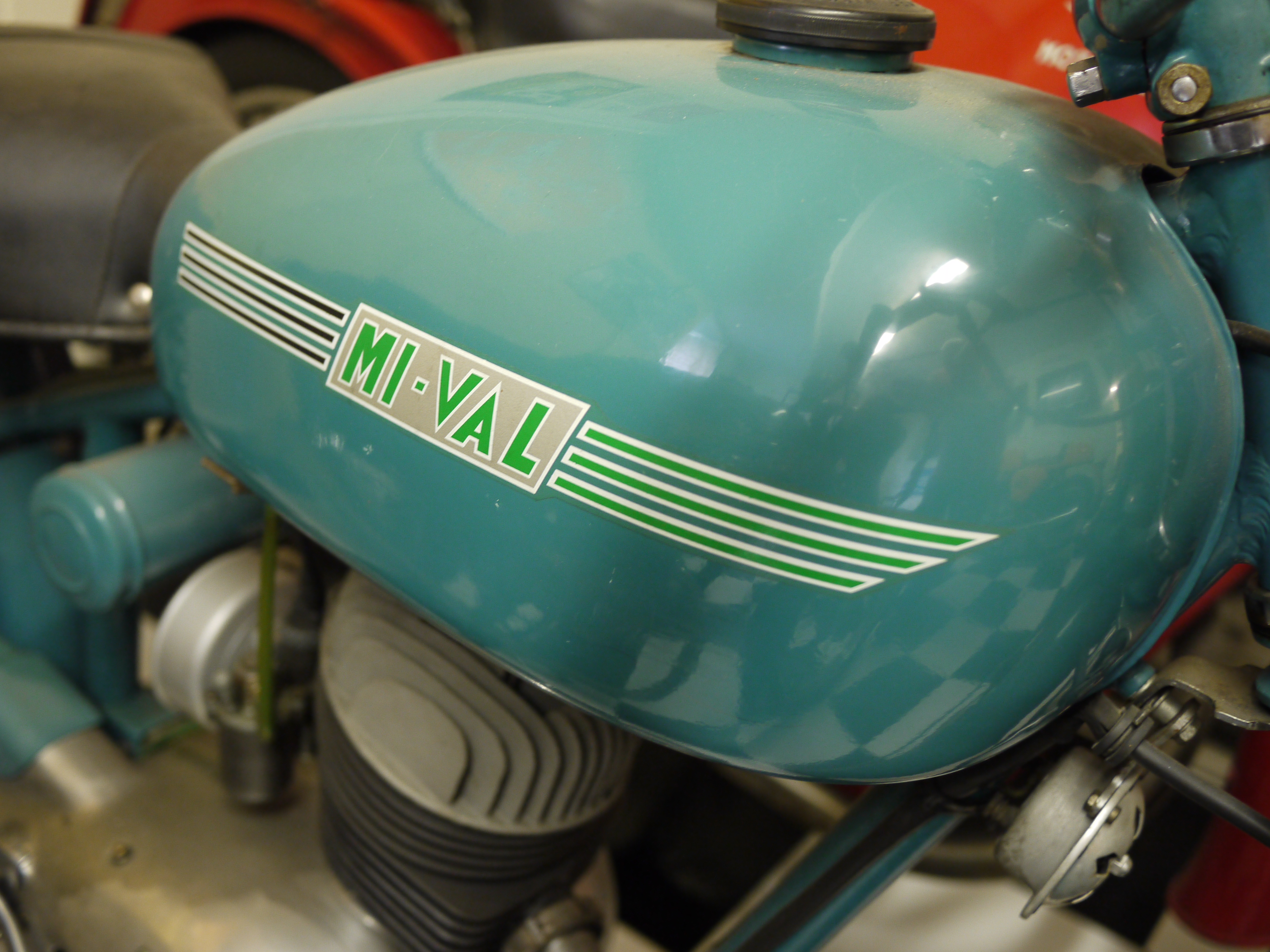 Logo MI-VAL 1952